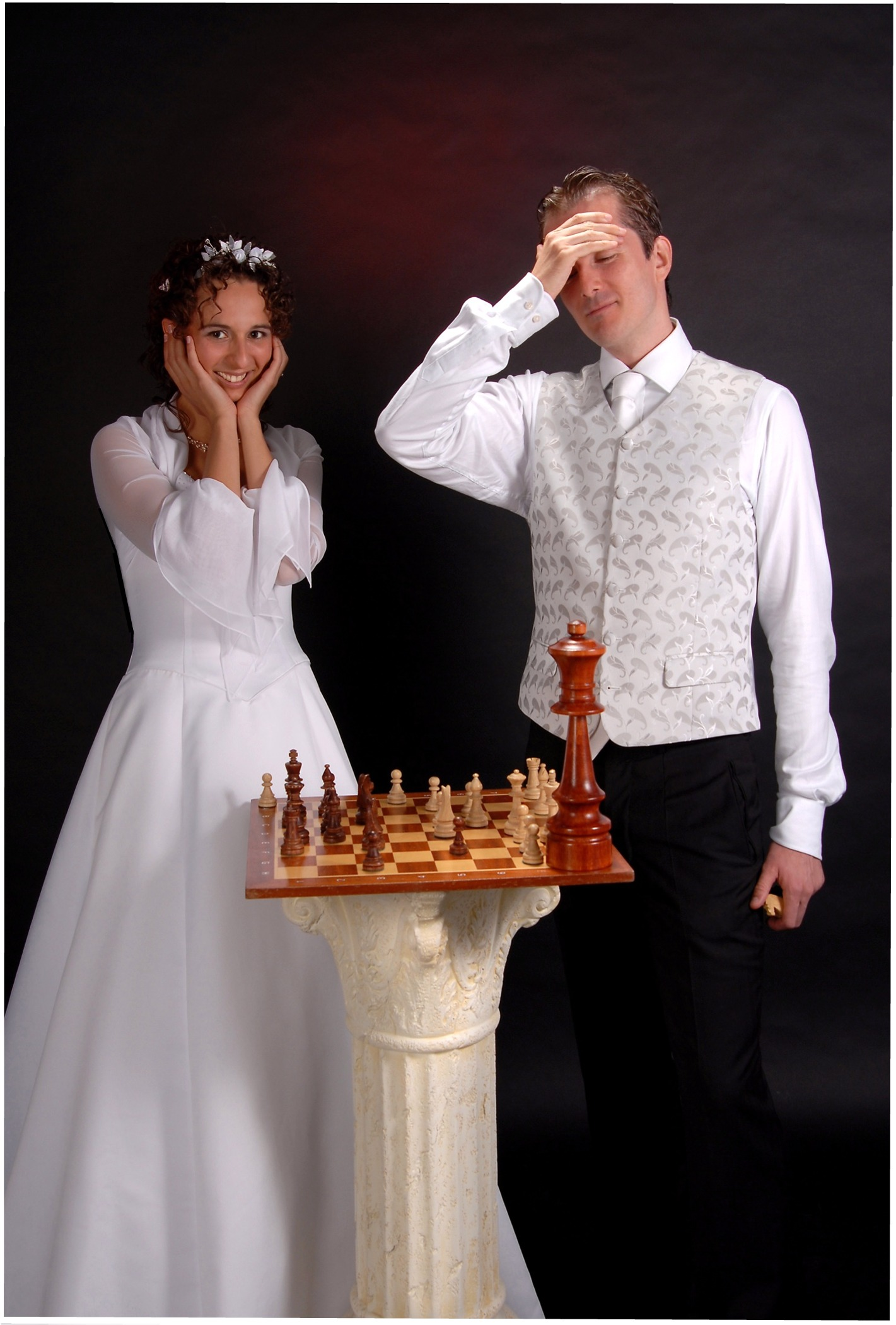 WGM and IM Iweta and IM Vasik Rajlich, wedding photo